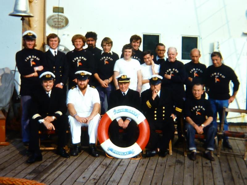 Officers, Deck Crew and catering staff pictured on board King Orry.